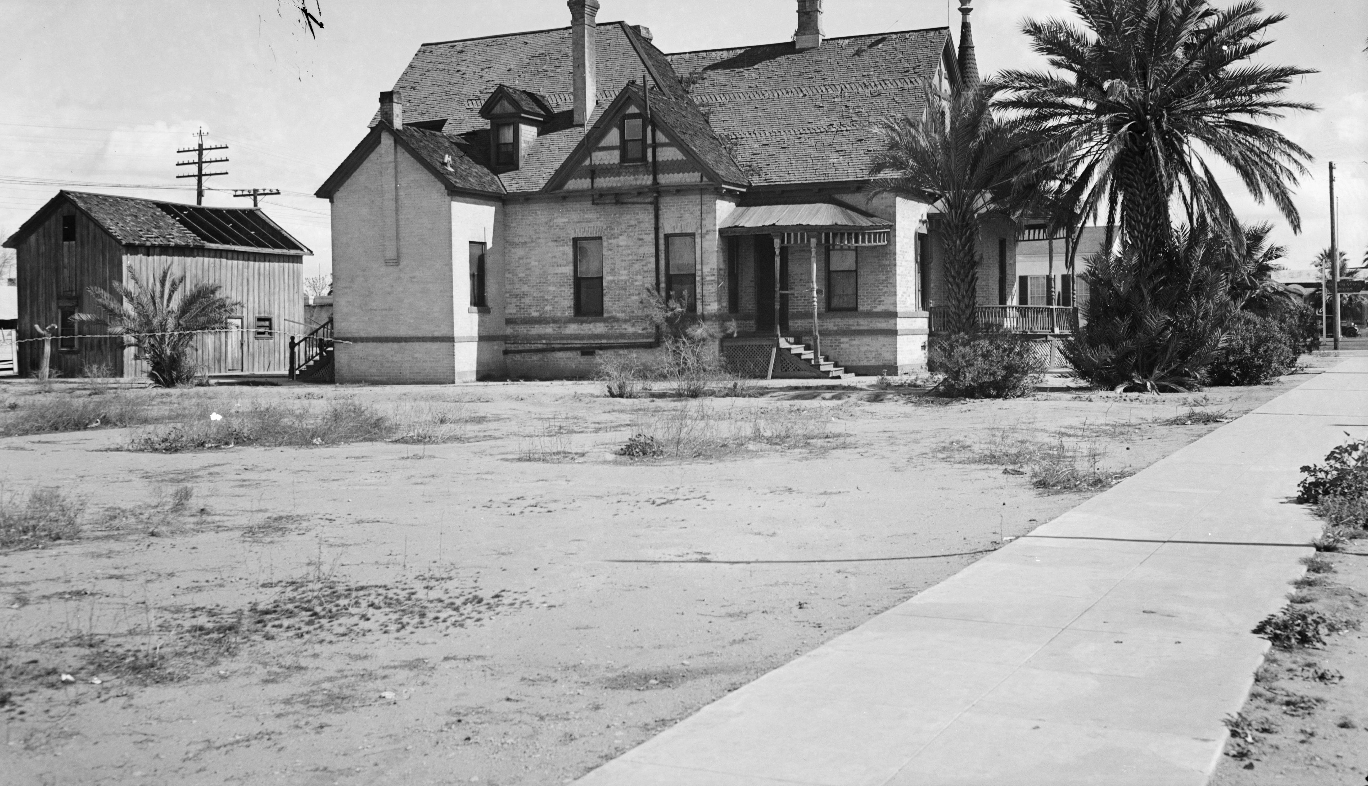 Northeastern side of the Evans House, located at 1108 W. Washington Street in Phoenix, Arizona, United States. Built in 1893, the house is listed on the National Register of Historic Places.